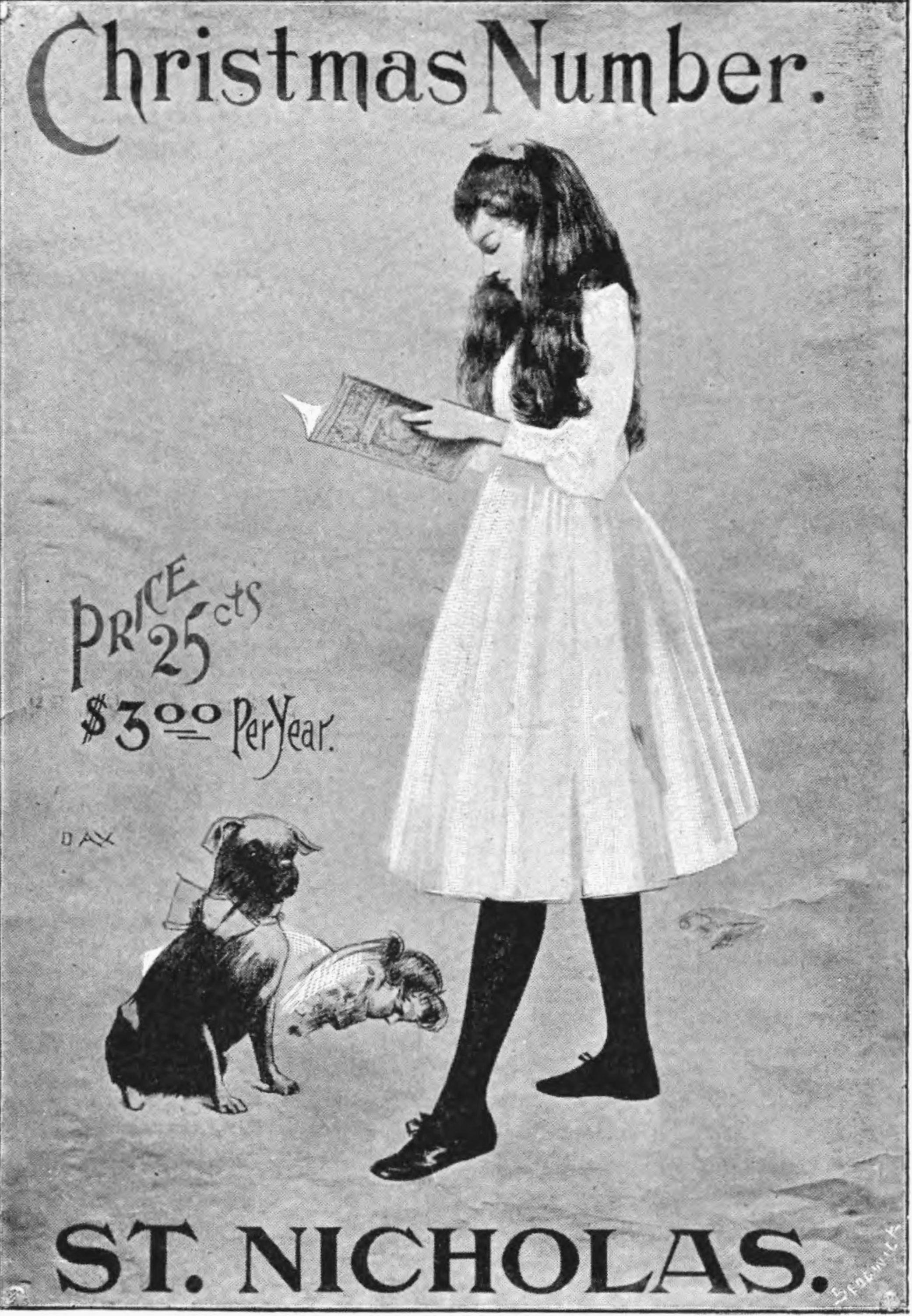 poster by francis day for 'christmas number'